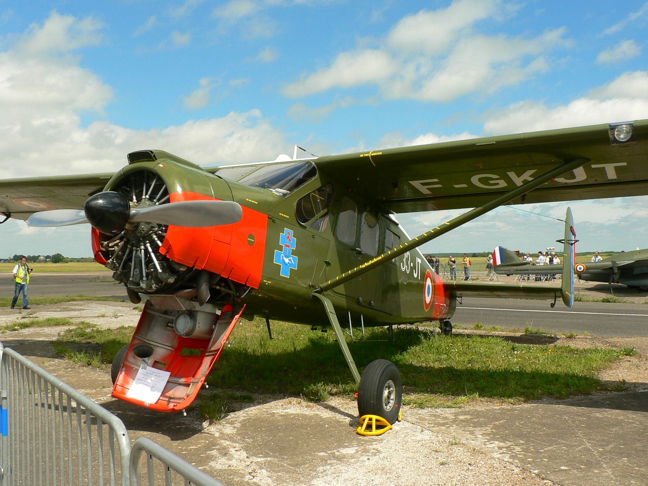 Max Holste MH-1521M Broussard F-GKJT from French Air Force at Tours (France) air meeting.